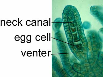 Archegonium of Porella, a leafy liverwort.